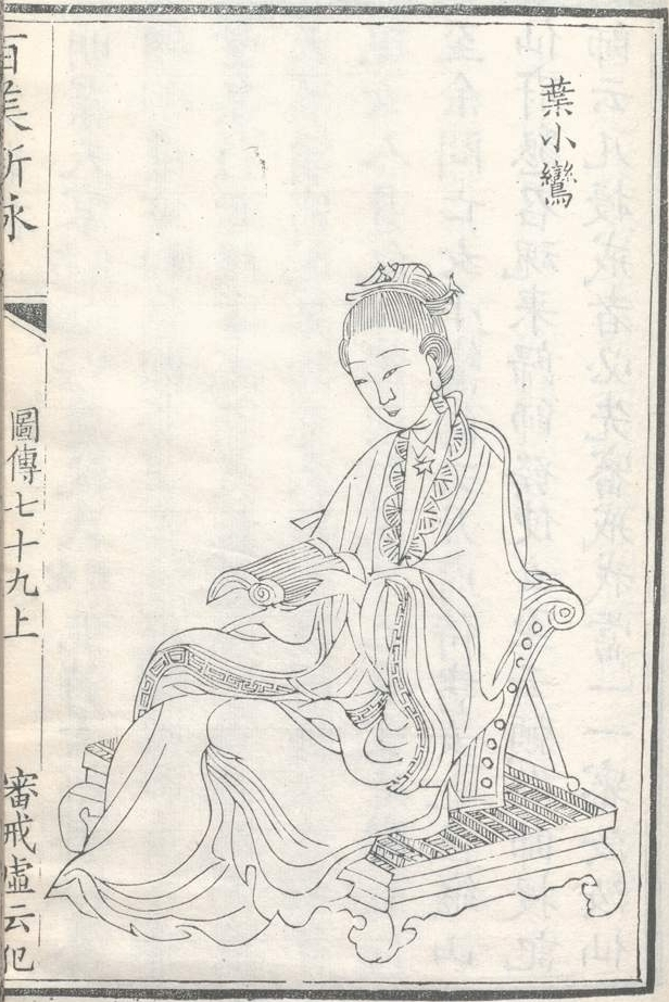 Portrait of Ye Xiaoluan reading a book. Yan Jiantang, Baimei xinyong, 1804